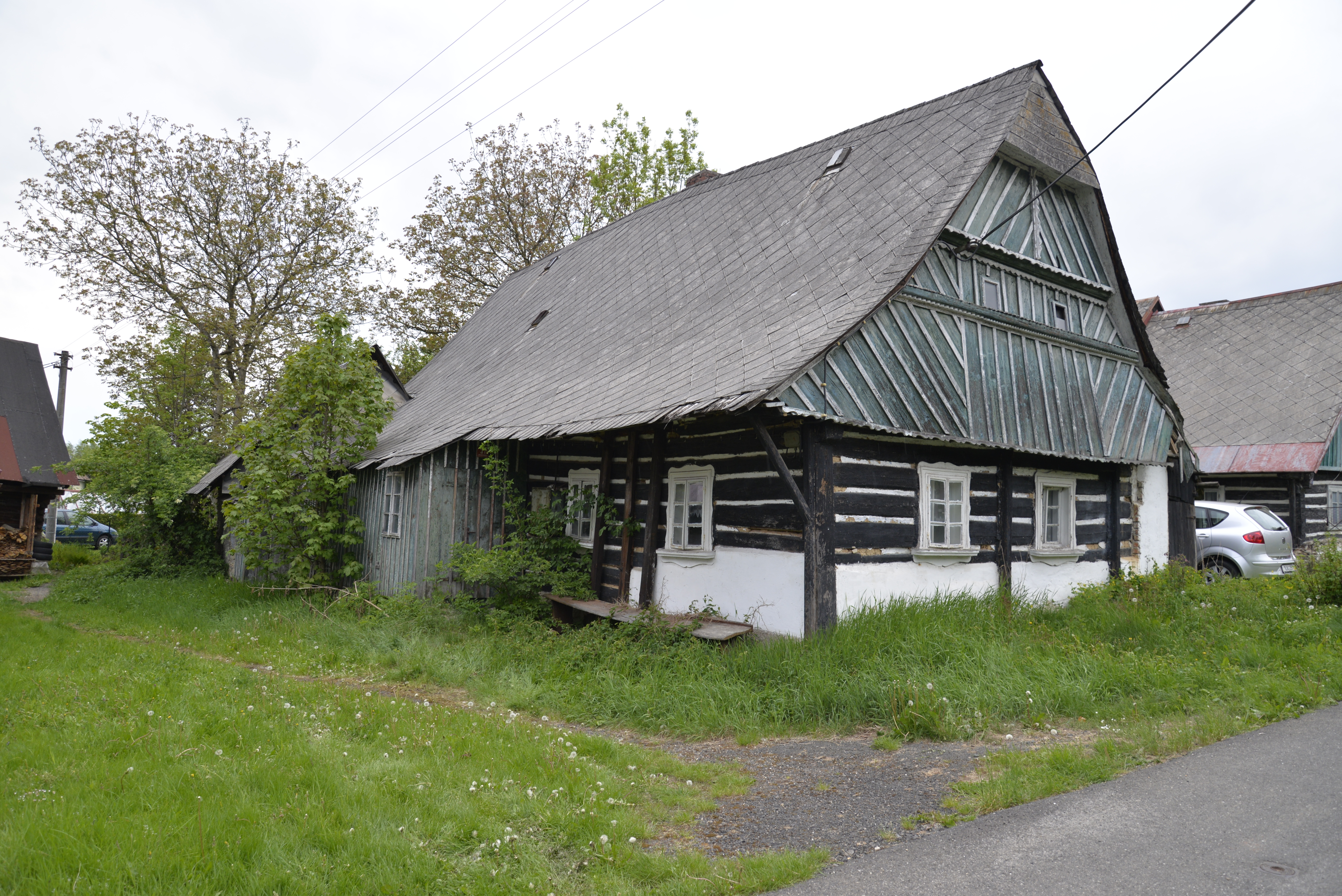 Homestead No. 31, Hrubá Horka 31, Hrubá Horka.